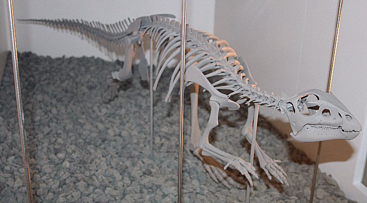 Hypsilophodon, mounted skeletal cast Melbourne Museum Photo: Cas Liber